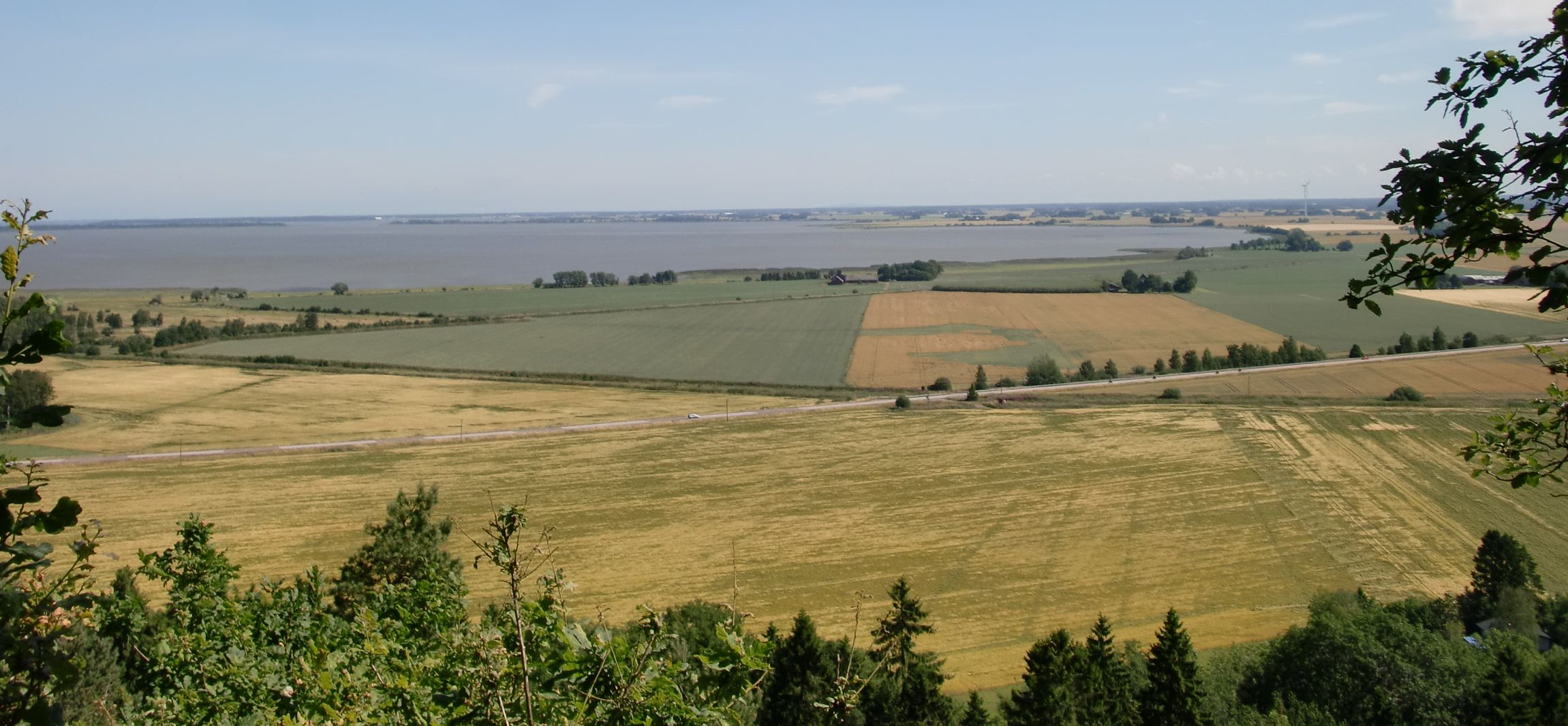 The bay Dattern in lake Vanern, Sweden. View from the mountain Hunneberg towards northeast.